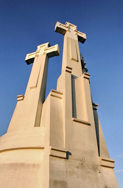 Three Crosses in Vilnius